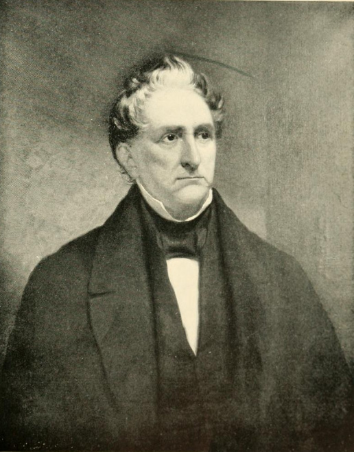 From the U.S. Senate historical office